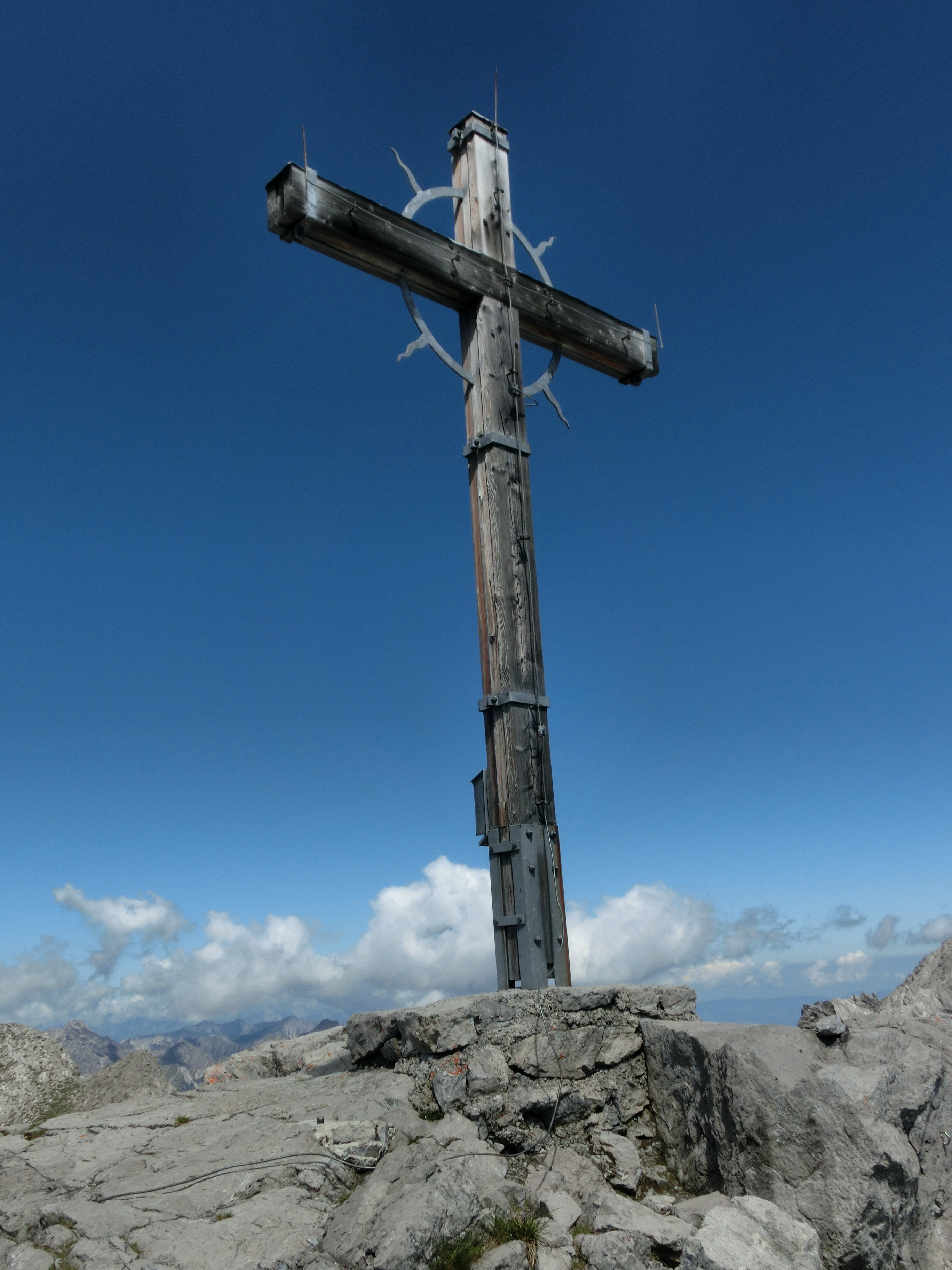 Austria - Vorarlberg: Saulakopf (2.516 m), summit cross